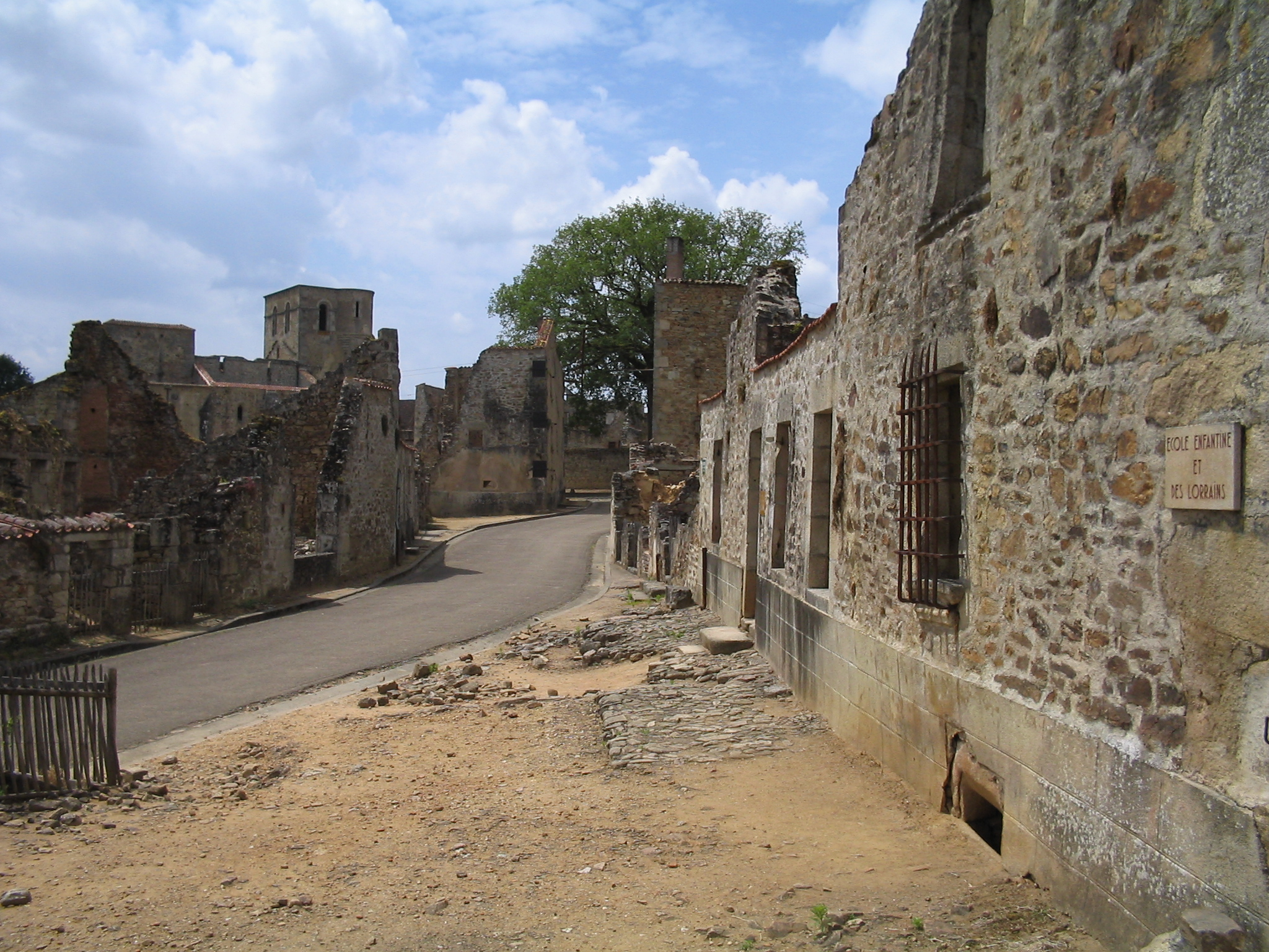 Oradour-sur Glane - the street outside the childrens' school, which is to the right. This is a photograph which I took during a visit to the French village Oradour-sur-Glane on June 11 2004, exactly 60 years after its destruction by the German army during World War II.